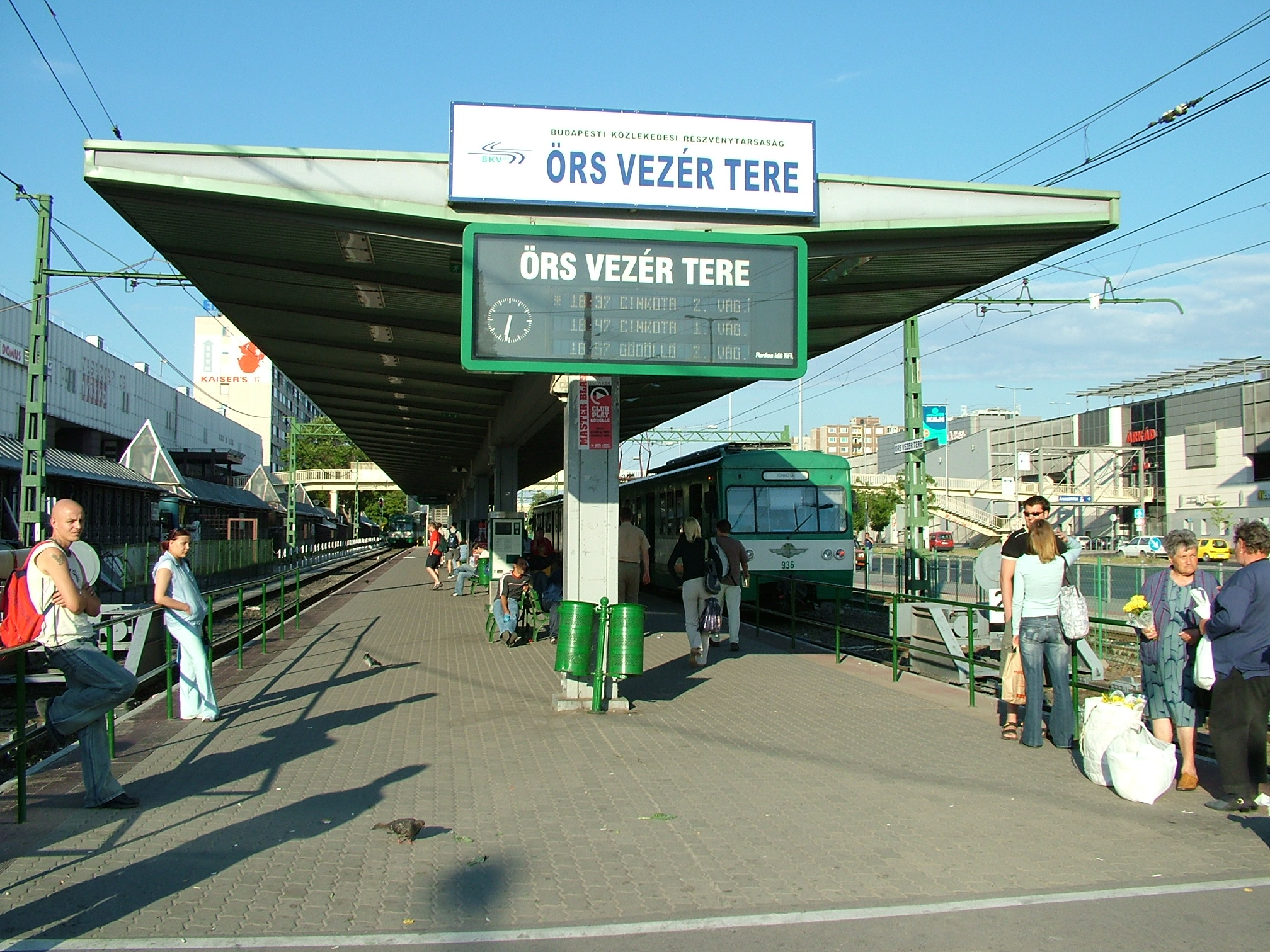 Örs Vezér tere terminal of Gödöllő suburban line